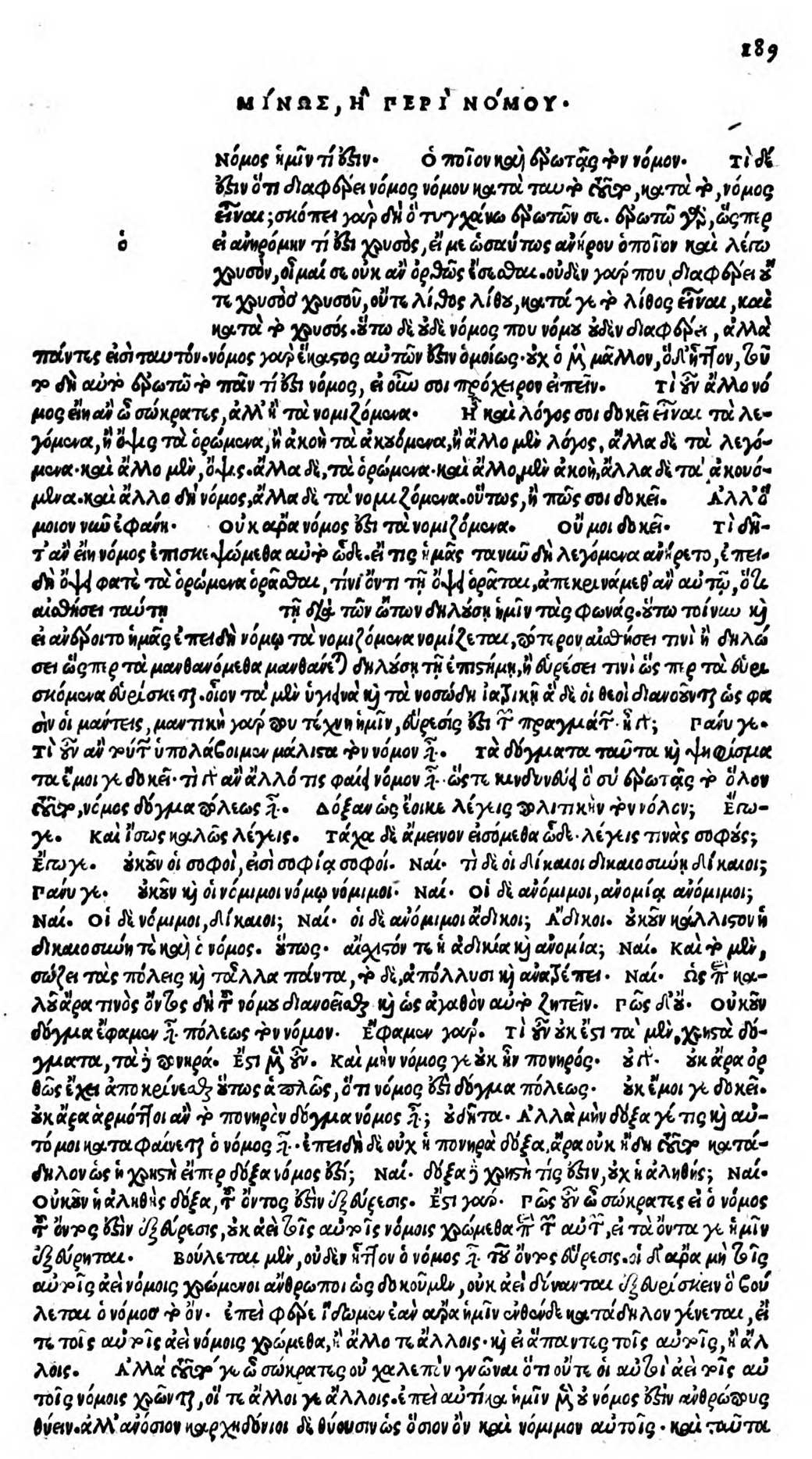 Minos beginning. Editio princeps, Venice 1513.